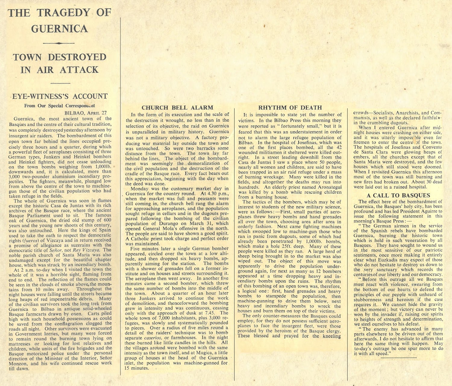 Chronicle of the bombing of Guernica made the day after the bombing and published in "The Times".